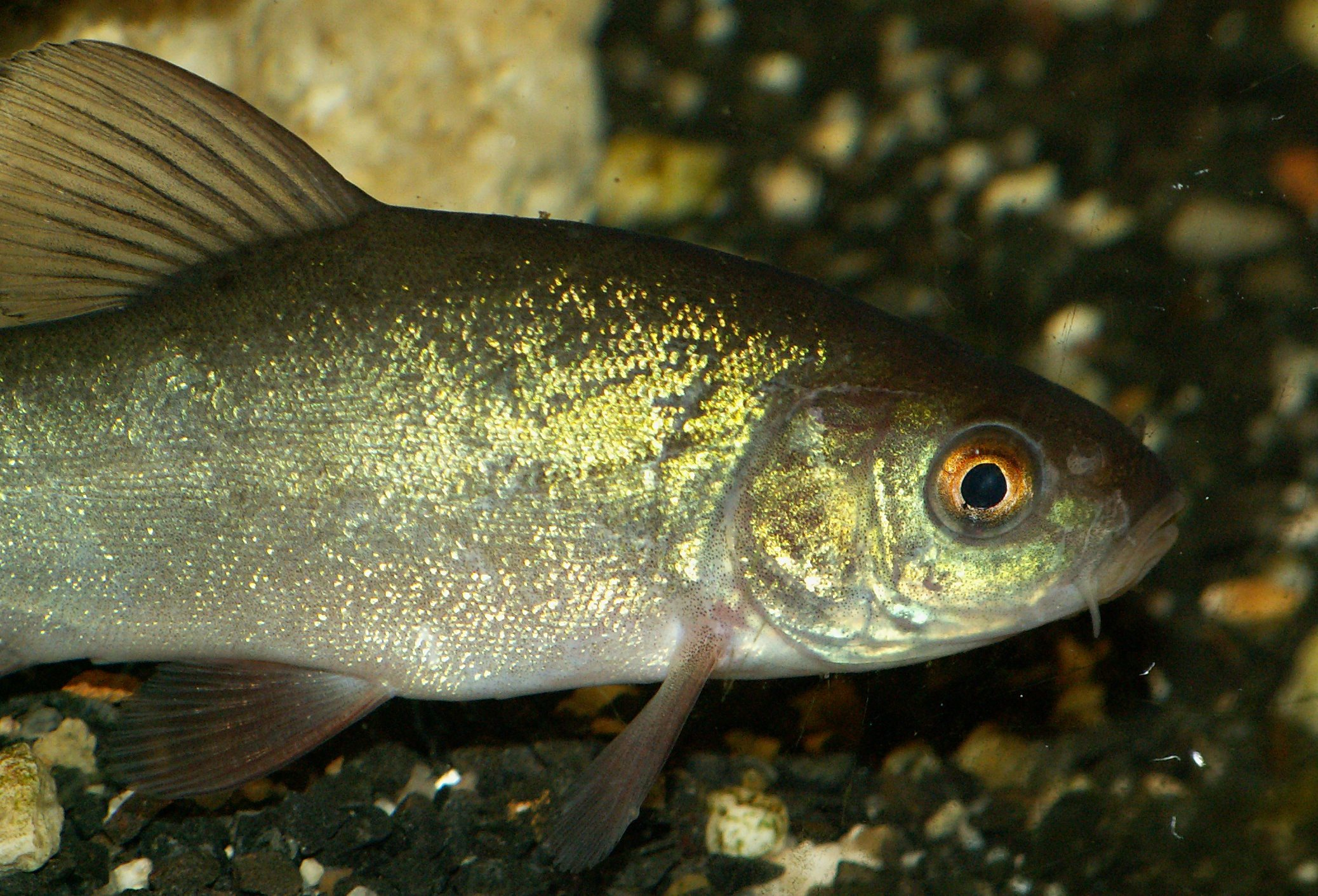 In this picture the barbs an the very smallscales of a young Tench are clearly visible, Utrecht The Netherlands